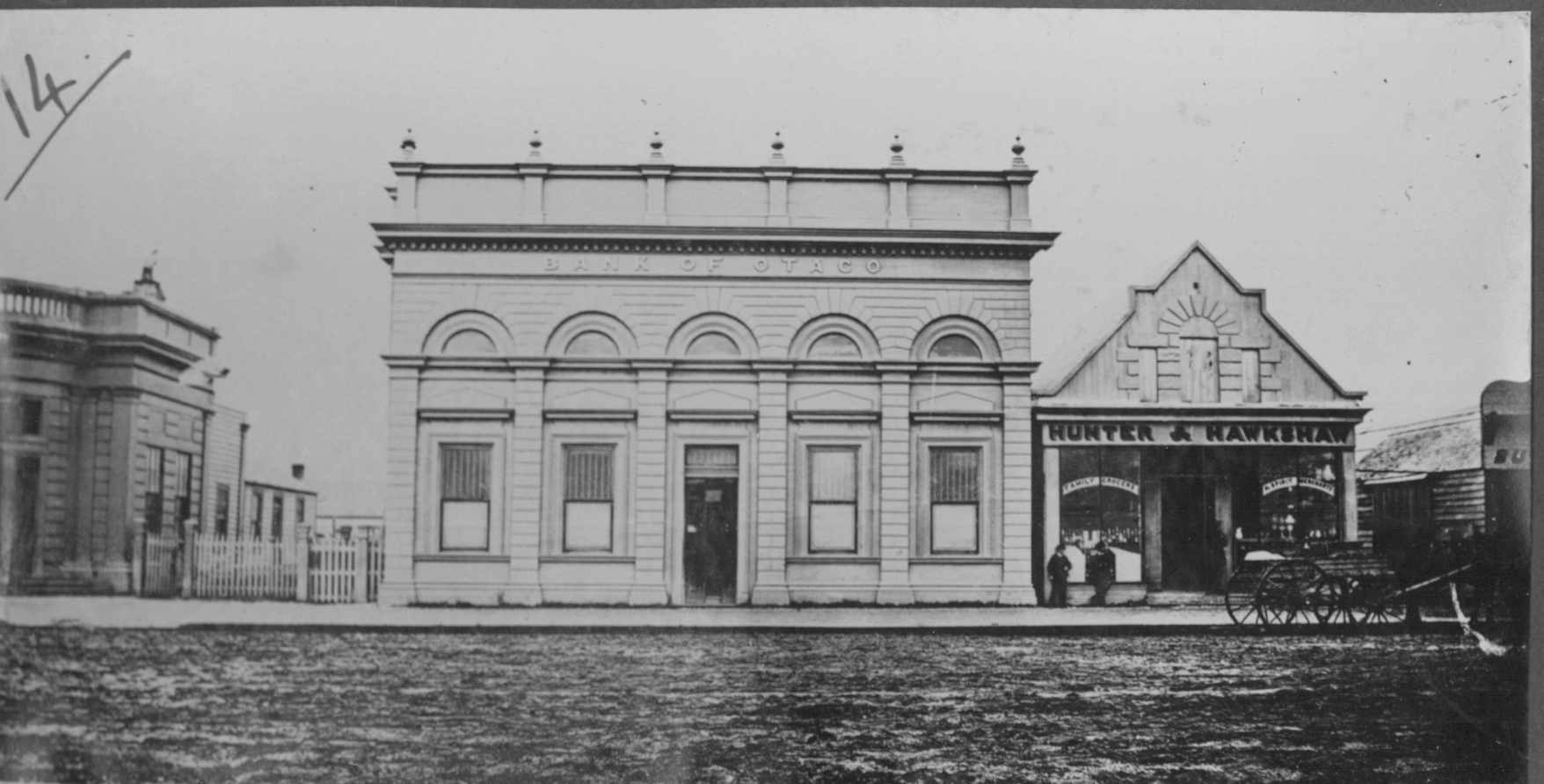 Bank of Otago and Hunter Hawkshaw Merchants, Tay Street, Invercargill, New Zealand